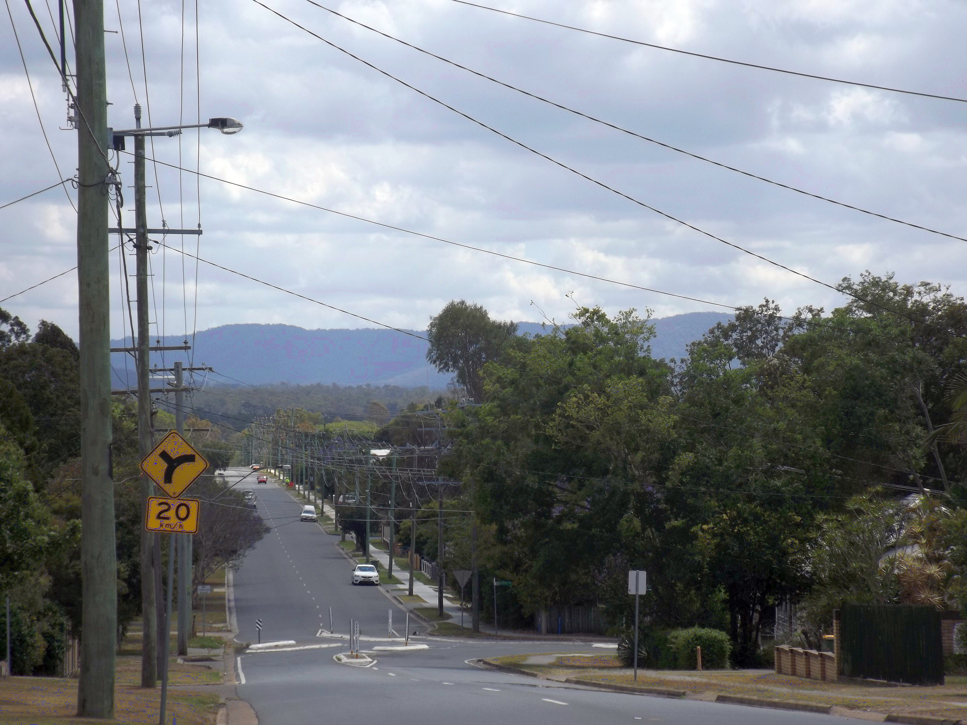 Photo of North Station Road in North Booval, Ipswich, Queensland, Australia.